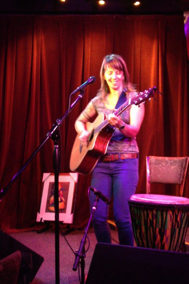 Patrice Pike performing at McGonigal's Mucky Duck, Houston, TX, USA - a free concert